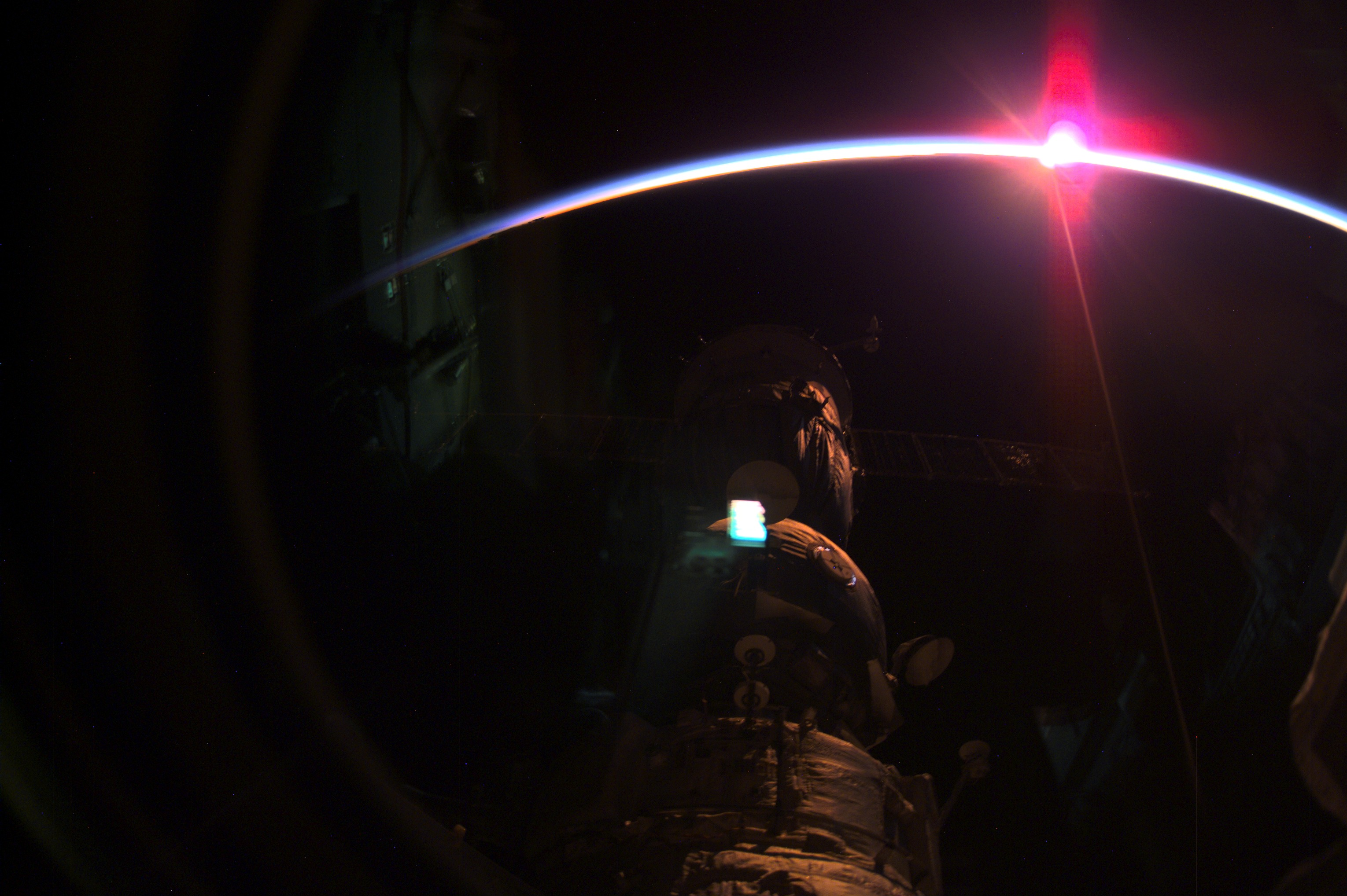 A setting sun and the thin blue airglow line at Earth's horizon. Some of the station's components are silhouetted in the foreground.